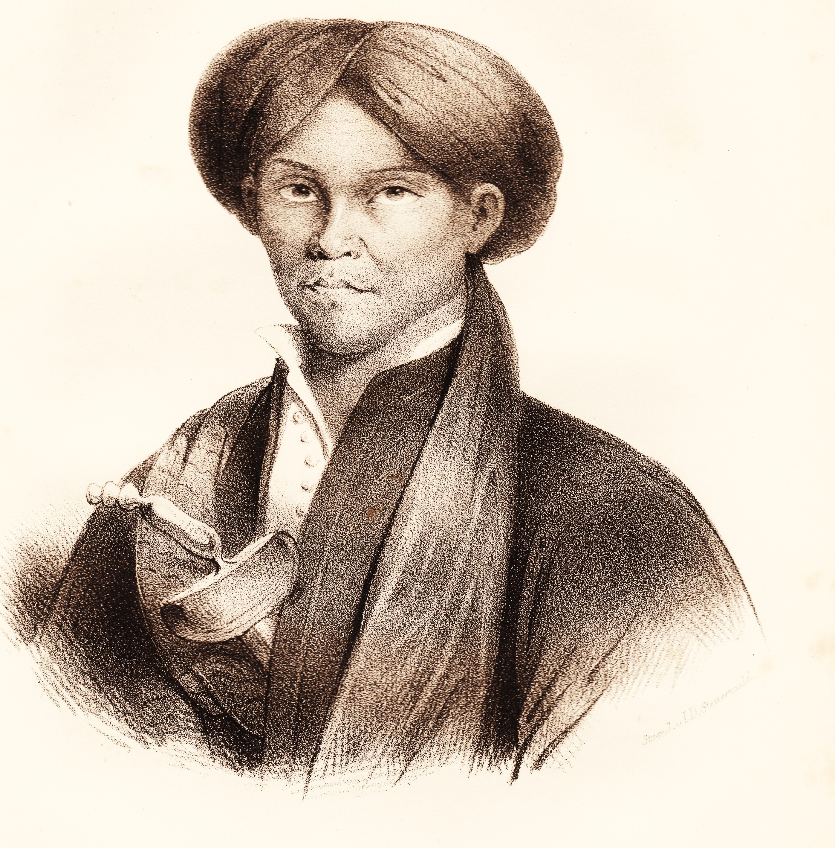 Diepo Negoro